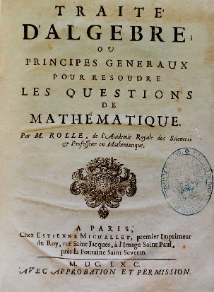 Title page of "Traité d'algèbre" (1690) by French mathematician Michel Rolle (1652-1719)